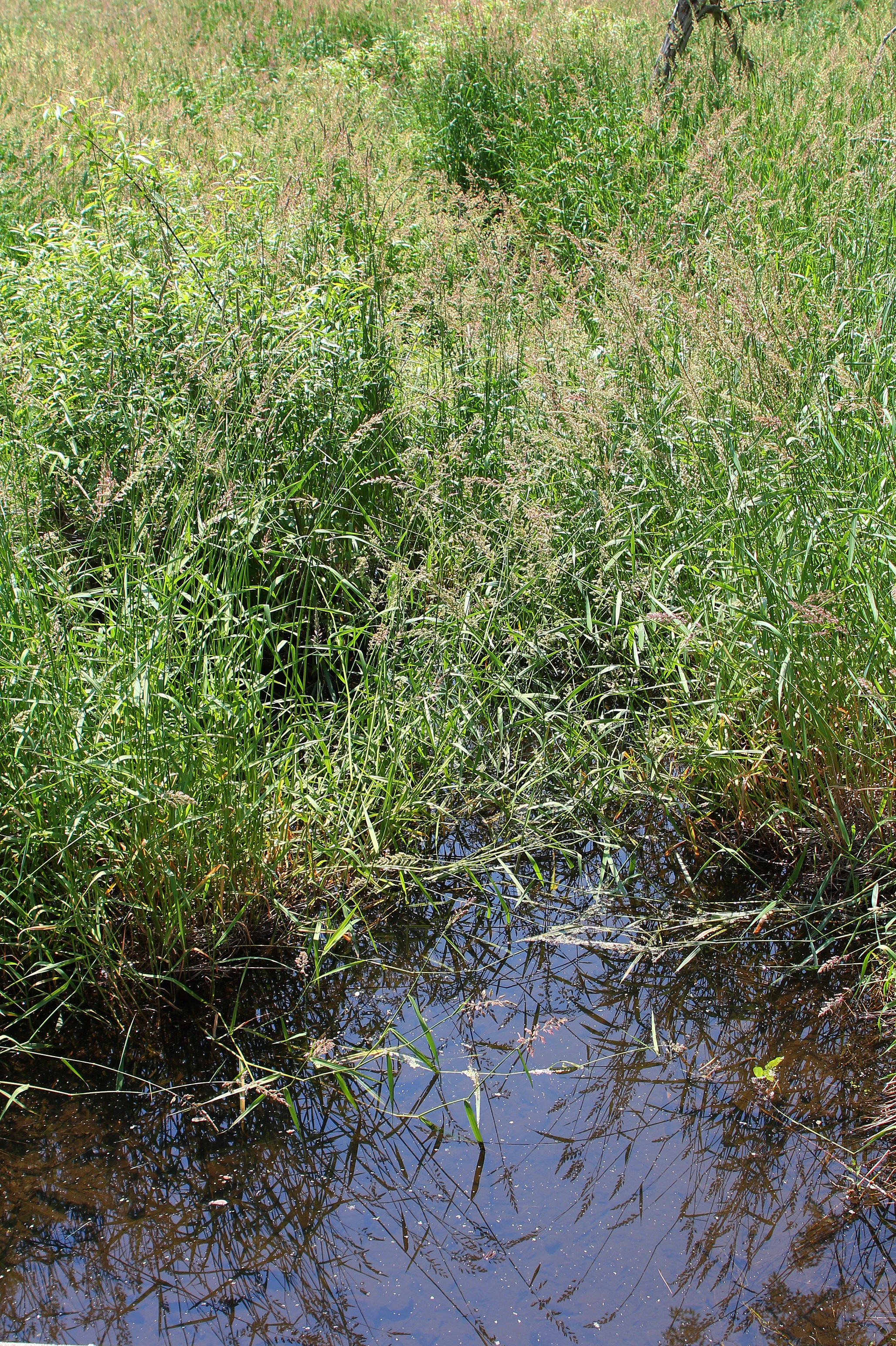 Bear Hollow Creek, as seen from Outlet-Loyalville Road. The creek is mostly obscured by tall grass.